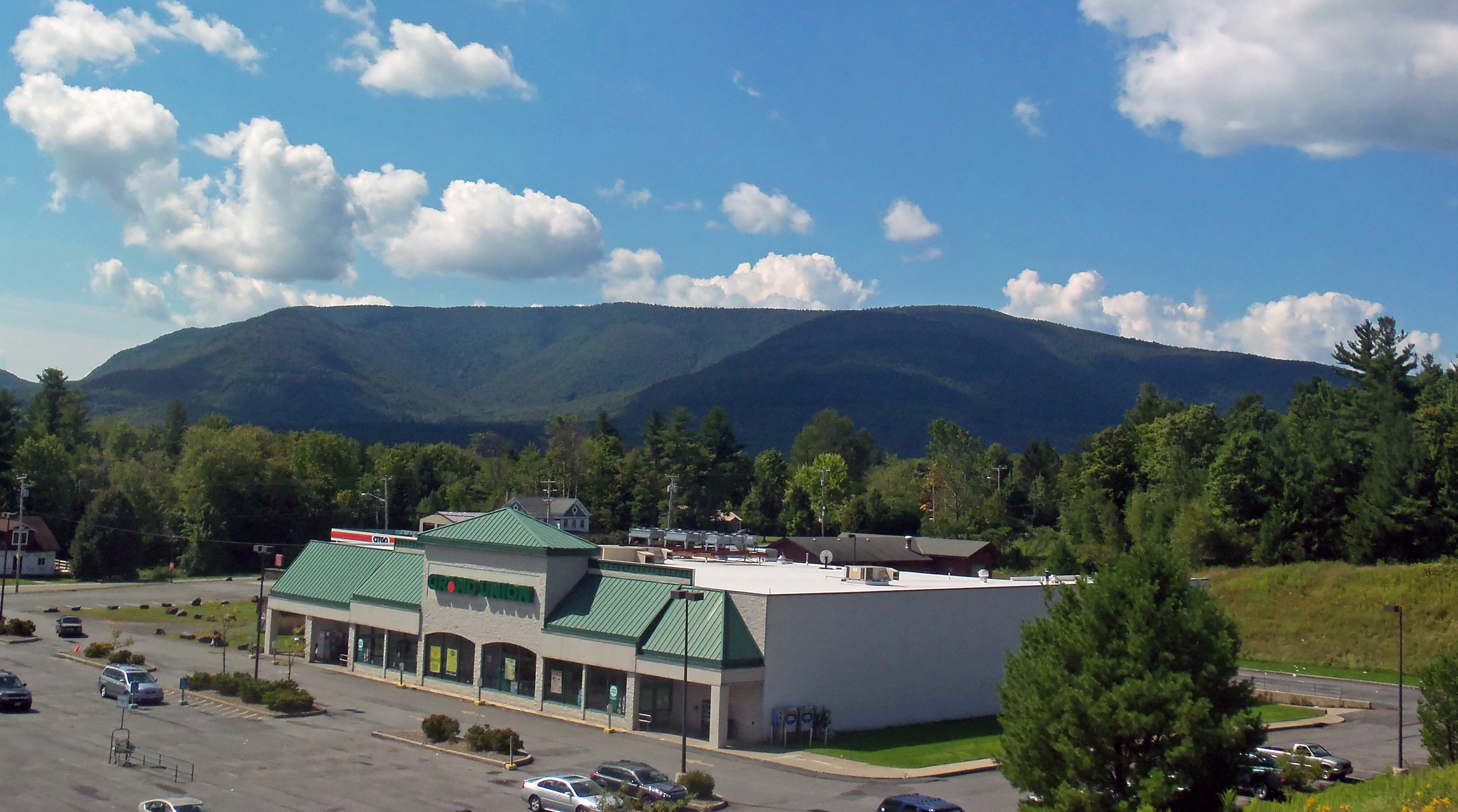 View to Plateau Mountain from Hunter, NY, USA